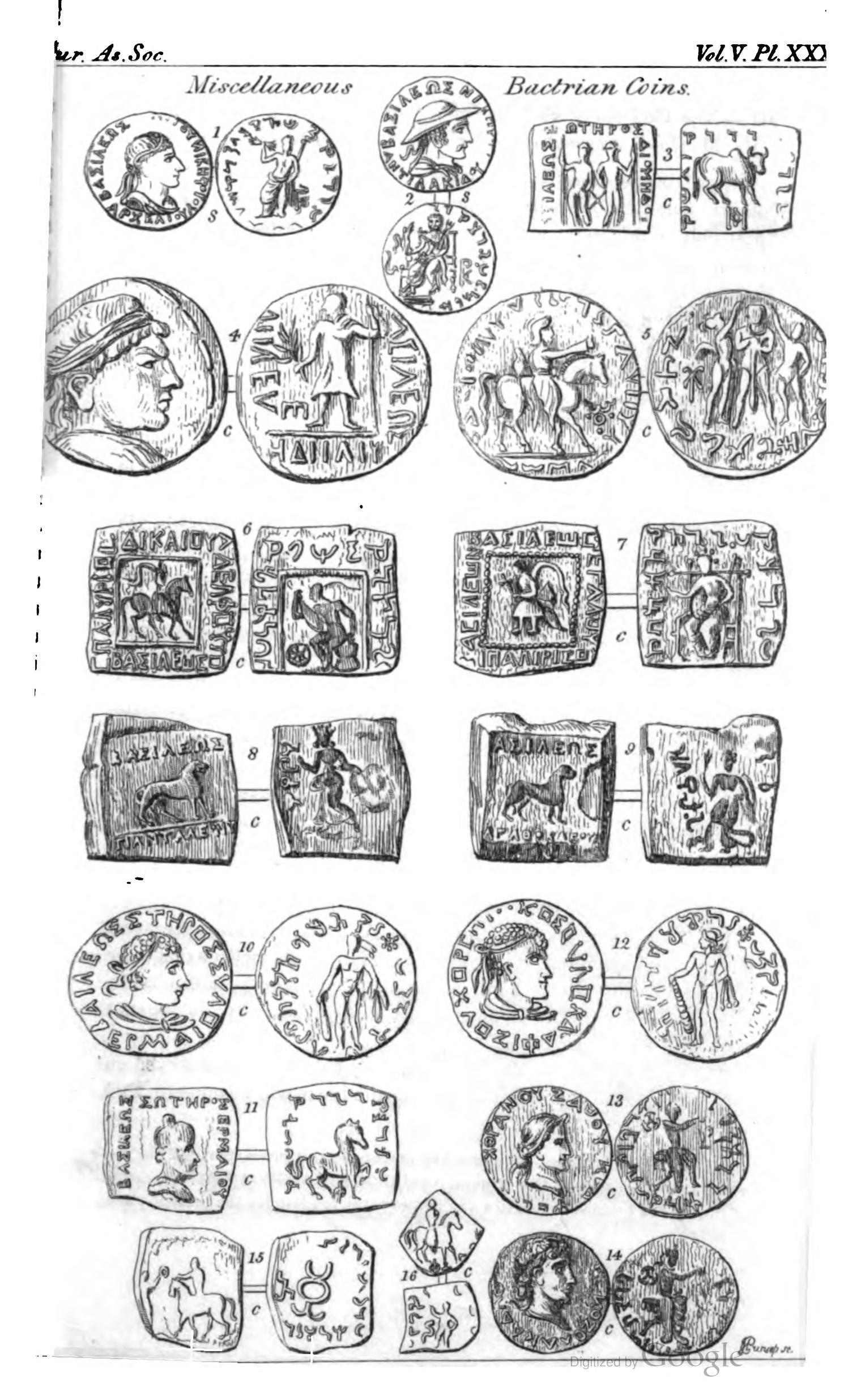 Plaque on Bactrian coins by Charles Masson